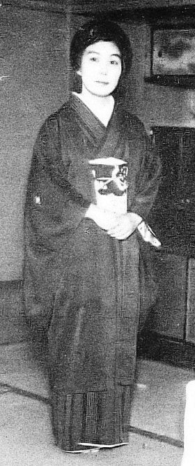 Ikuko Nagai (Singer)